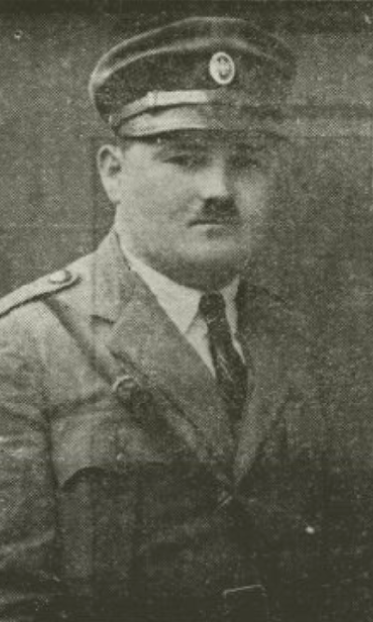 Customs officer Gvozden Pantelić (*1892/93- † 17.10.1930), Customs Office Ljubljana, Kingdom of Yugoslavia.